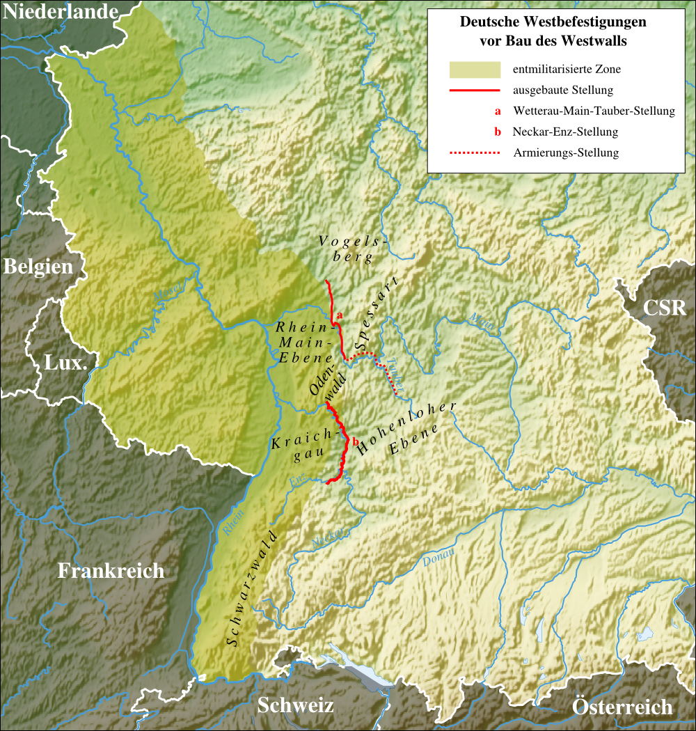 German western line of defence before builing the Westwall: Wetterau-Main-Tauber-Stellung and Neckar-Enz-Stellung.